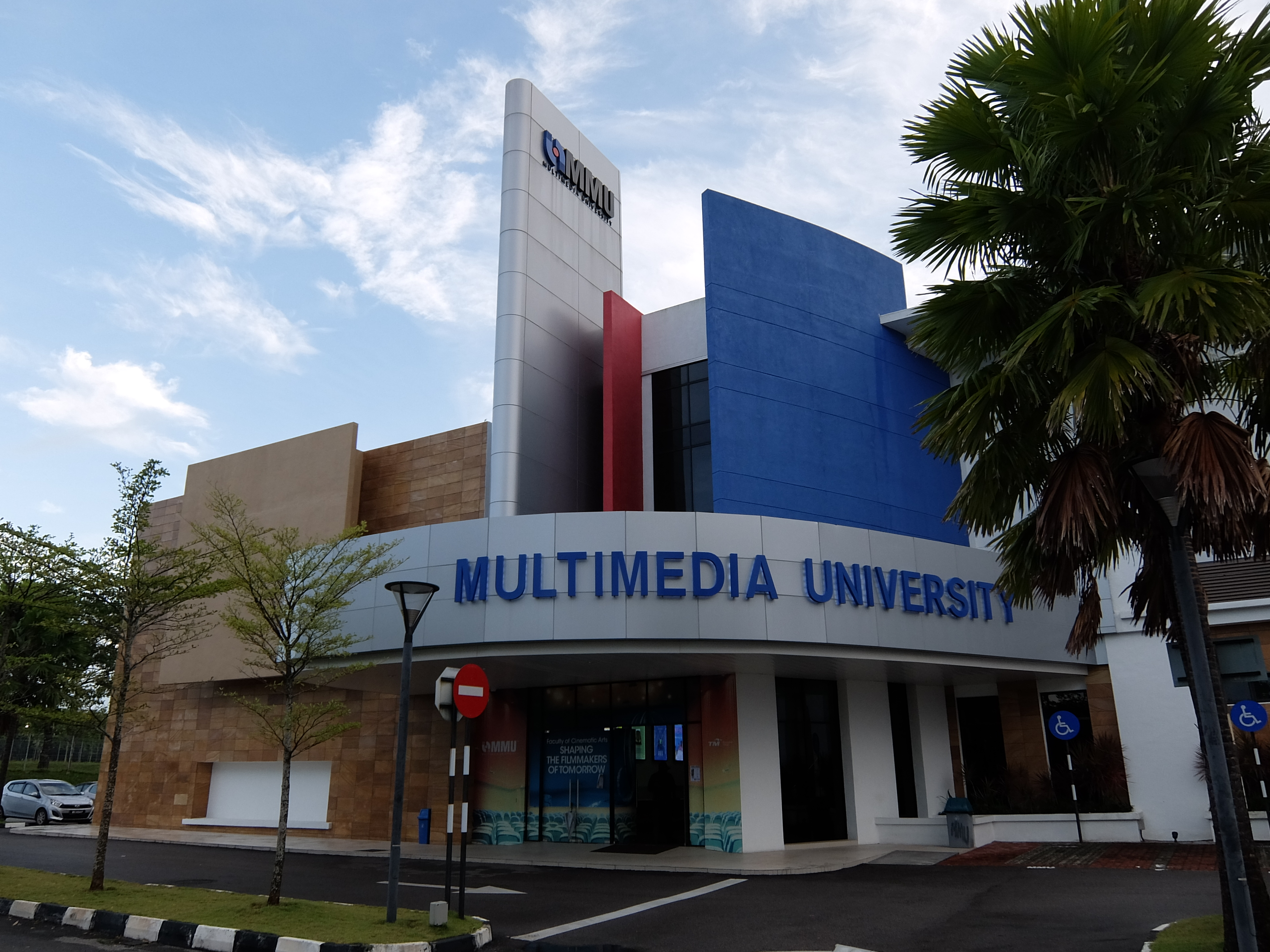 Johor Campus, Multimedia University, EduCity, Iskandar Puteri, Johor, Malaysia